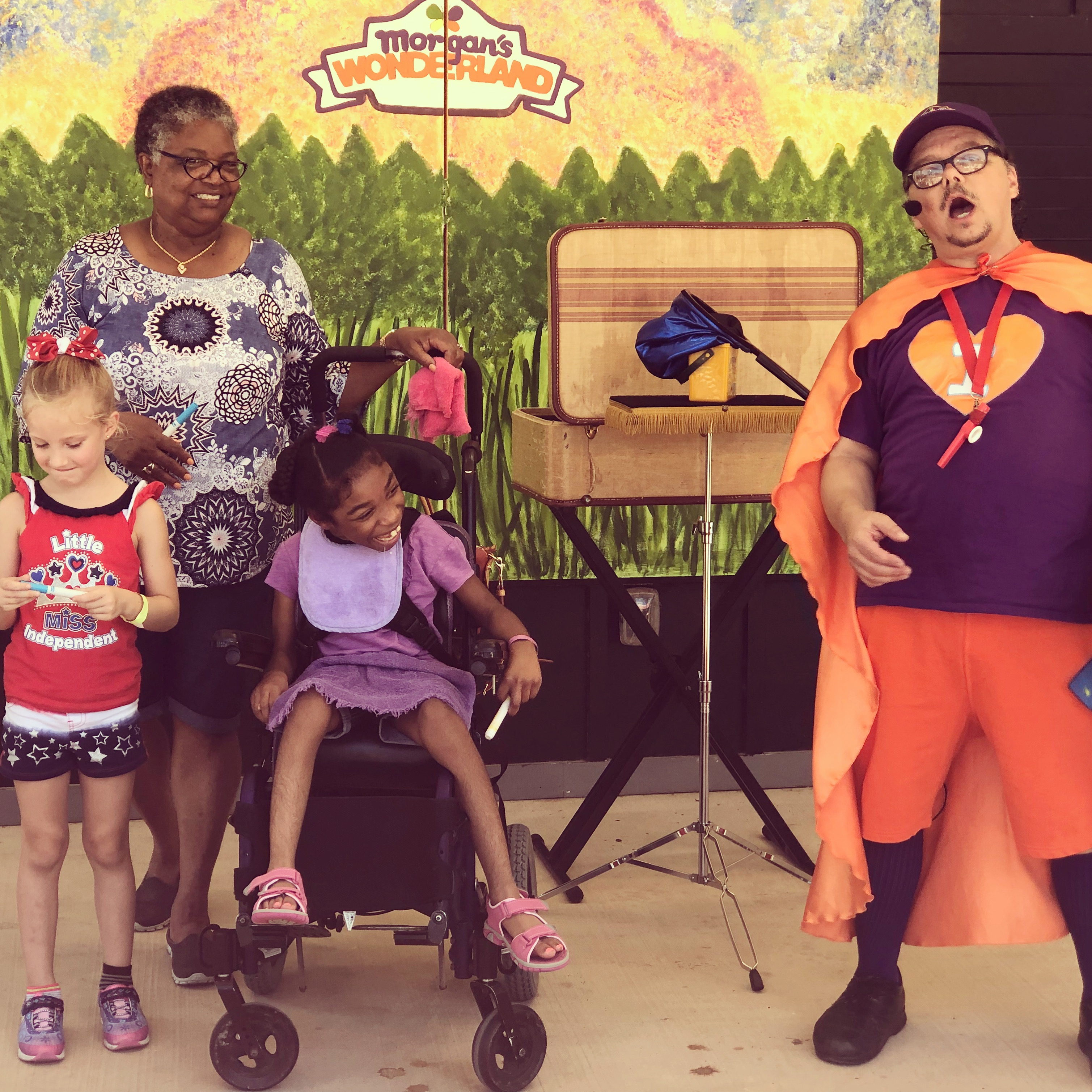 Guests enjoying an interactive performance of 'The Adventures of Captain Inclusion.'